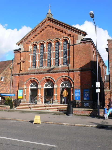 Beaconsfield United Reformed Church, Aylesbury End, Beaconsfield, Buckinghamshire, seen from west-southwest. Built in 1874–75 in front of an earlier chapel dating from 1800.